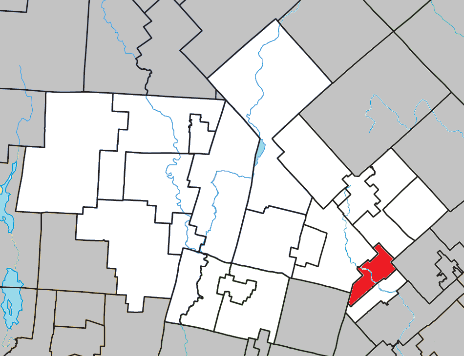 Location of Val-David, Quebec within Les Laurentides Regional County Municipality.